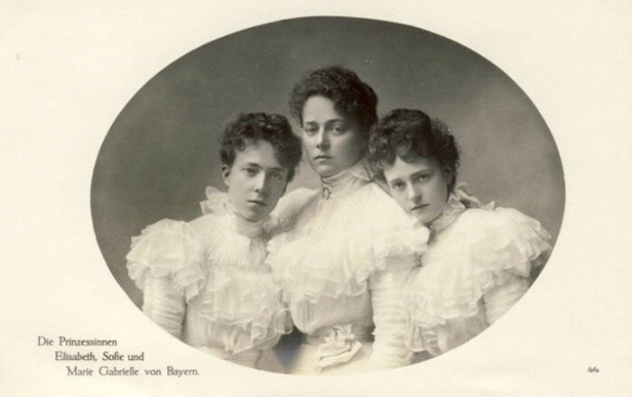 3 Bavarian sisters: Gabrielle, Crown Princess of Bavaria; Sophie, Countess zu Törring-Jettenbach and Elisabeth, Queen of Belgium